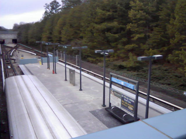 Shows the MARTA Indian Creek station in DeKalb County, GA from the entrance. The island is the western part of the station.